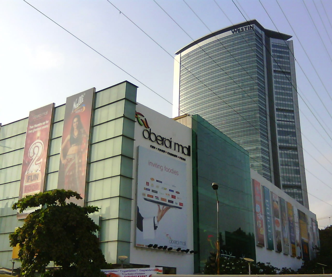 Oberoi Commerz tower at Goregaon, Mumbai. It is one of tallest commercial buildings in India which contains Oberoi mall and Westin Hotel.